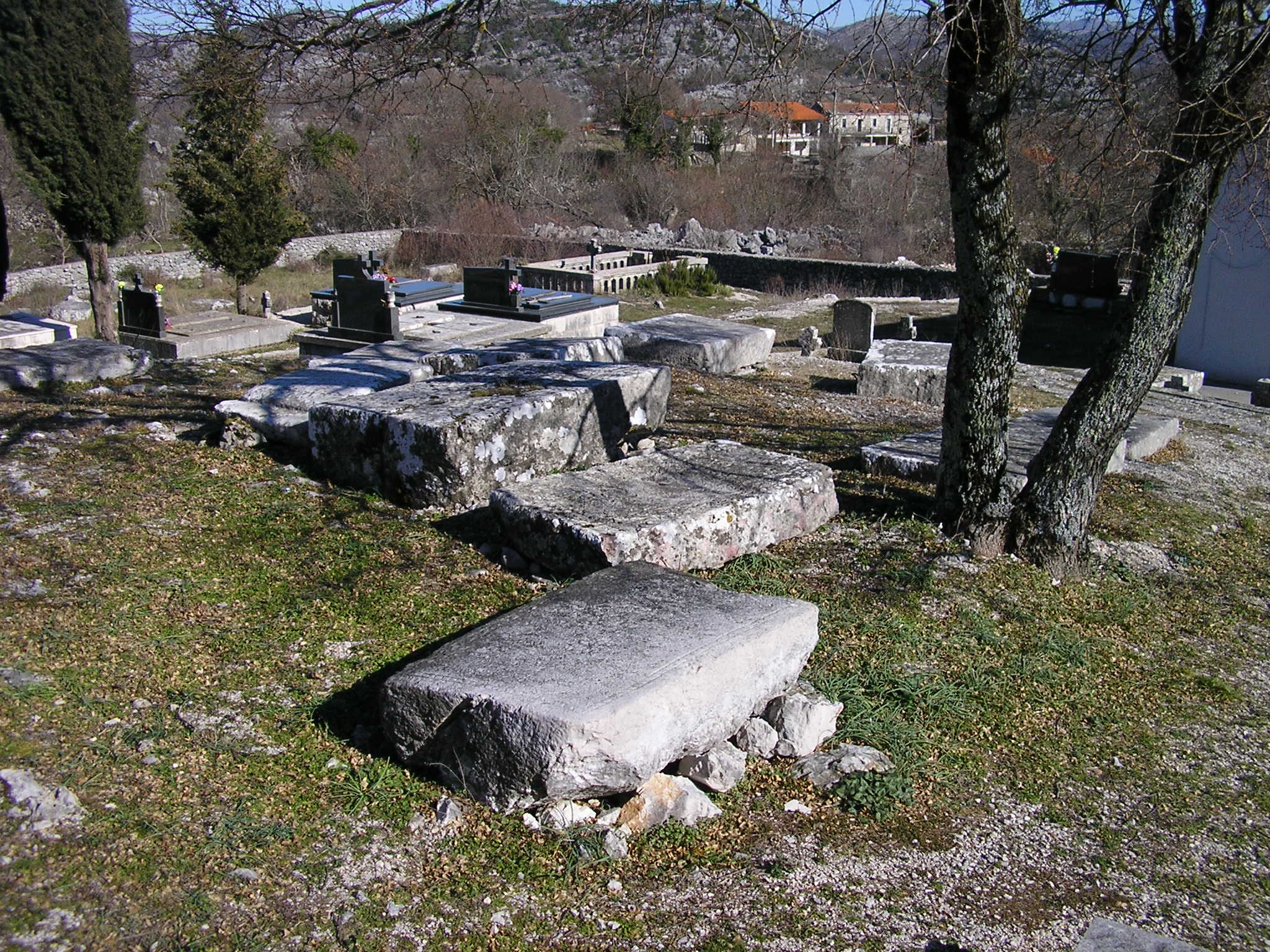 Cemetery and stećci in Glumina